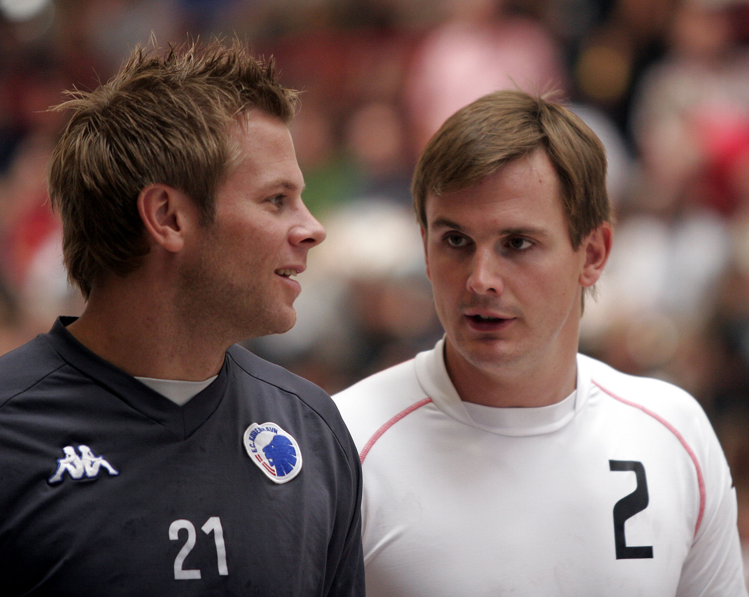 Per Thomas ("Pelle") Linders, Swedish handball player from FCK Håndbold and Martin Boquist (right), during the Schlecker Cup 2007 in Ehingen (Germany)